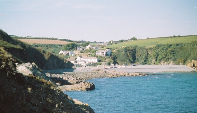 Porthallow cove from Porthkerris Point